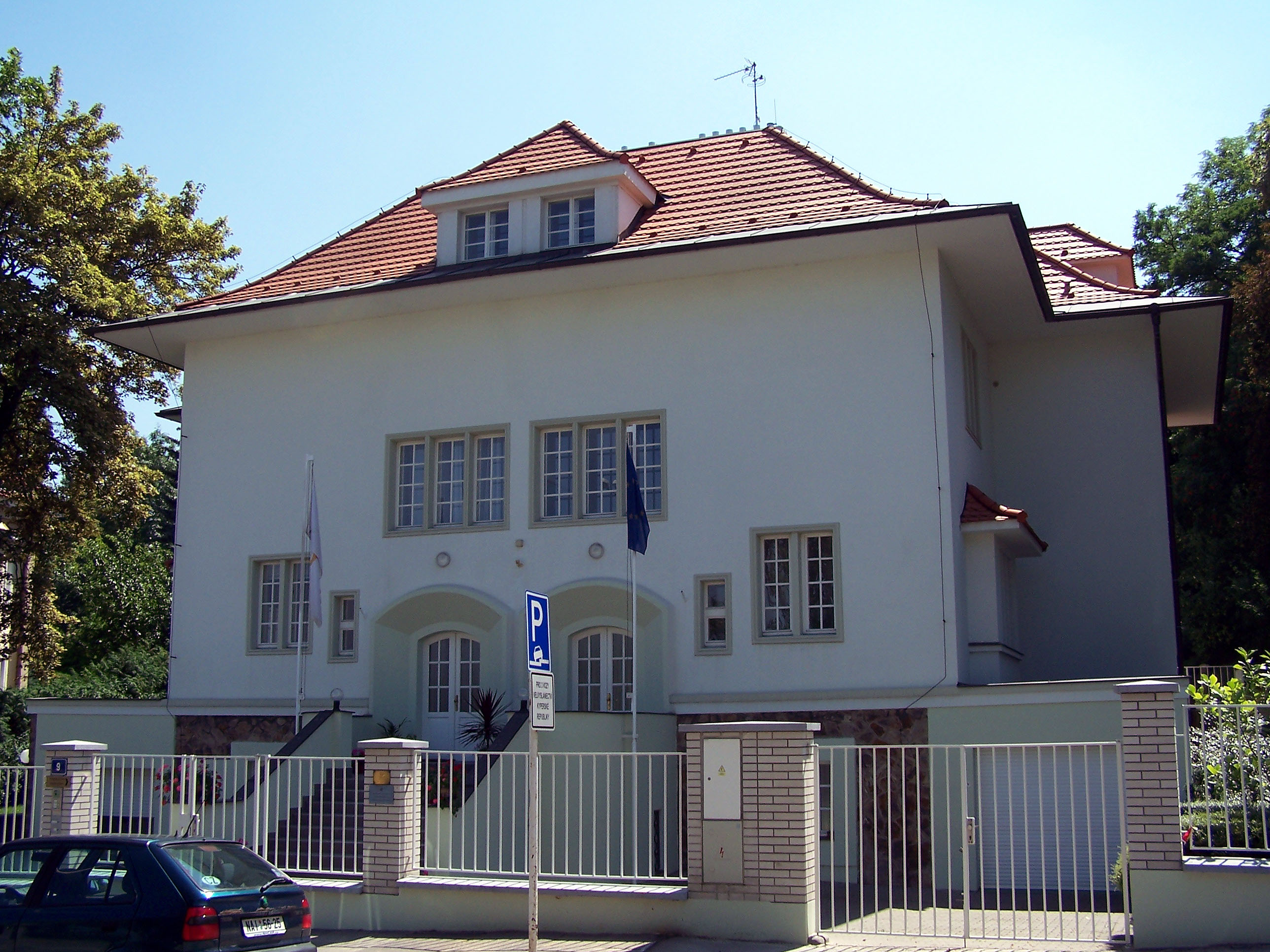 Embassy of the Republic of Cyprus in Prague, Czech Republic